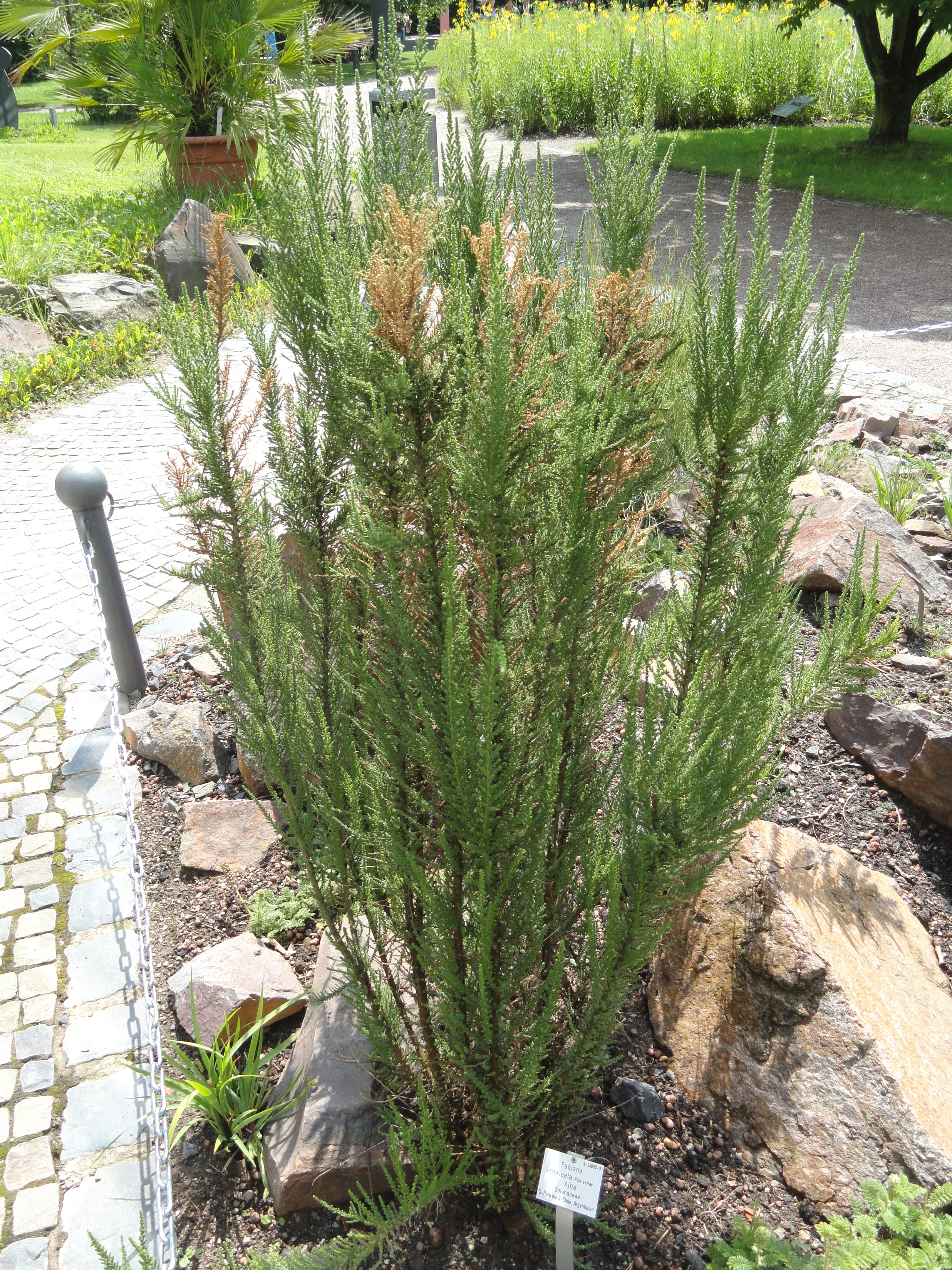 Botanical specimen in the Palmengarten, Frankfurt am Main, Germany.